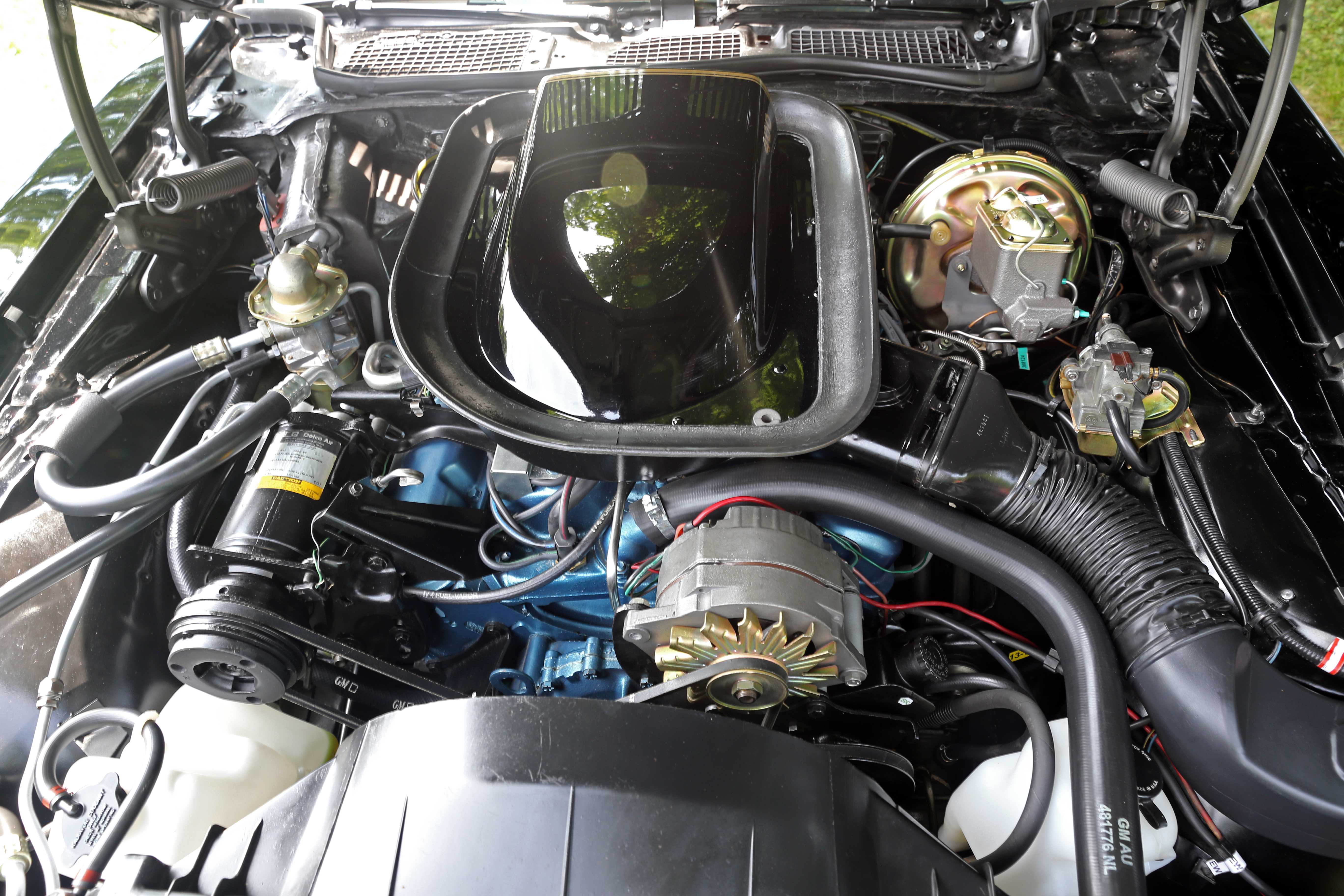 The 400ci Pontiac V8 engine in a 1976 Pontiac Firebird Trans Am 50th Anniversary Limited Edition. 2590 of these special editions were built, the package consisted of black paint with gold trim and some decals.